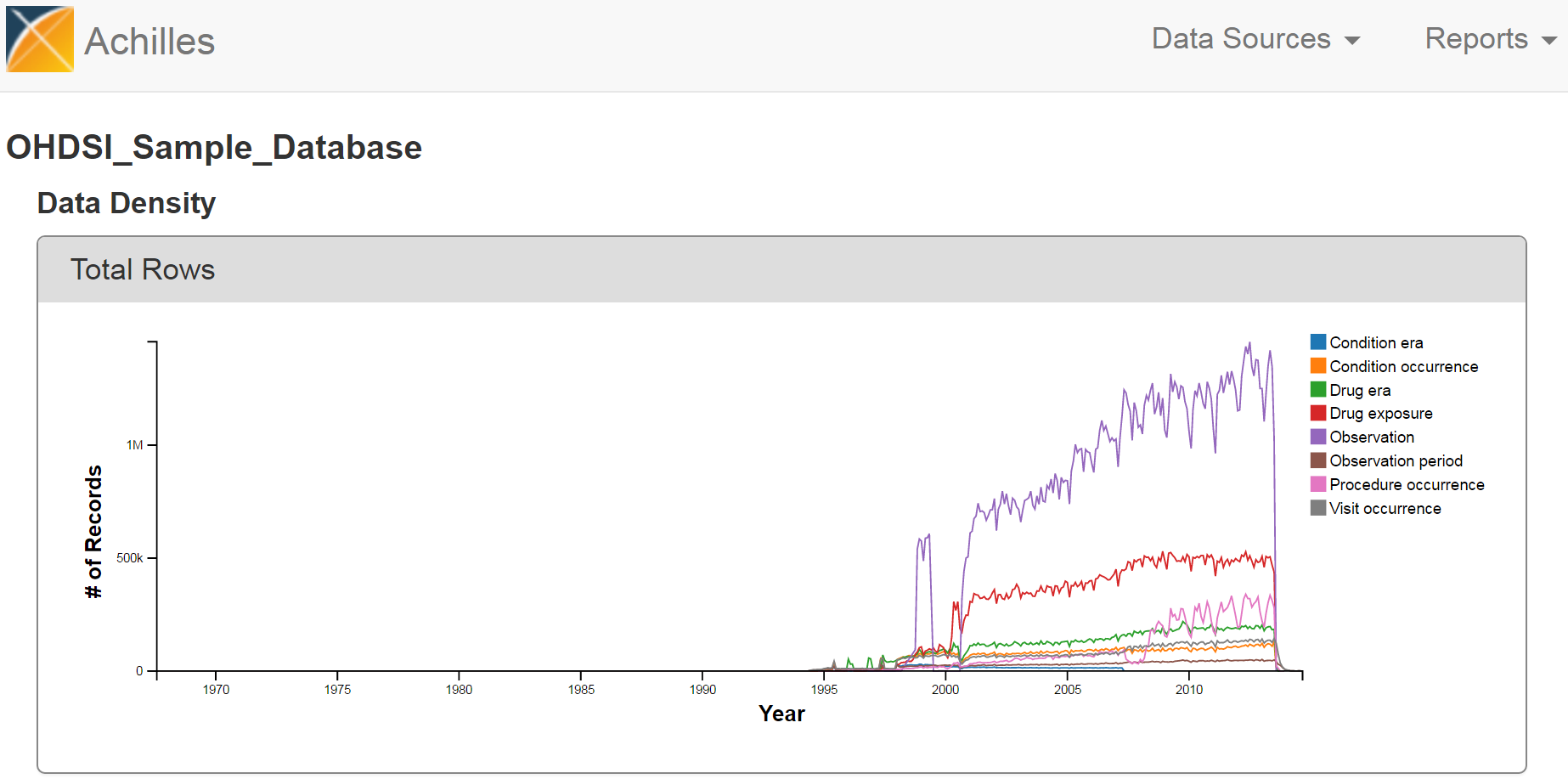 Achilles tool for data characterization of a healthcare dataset